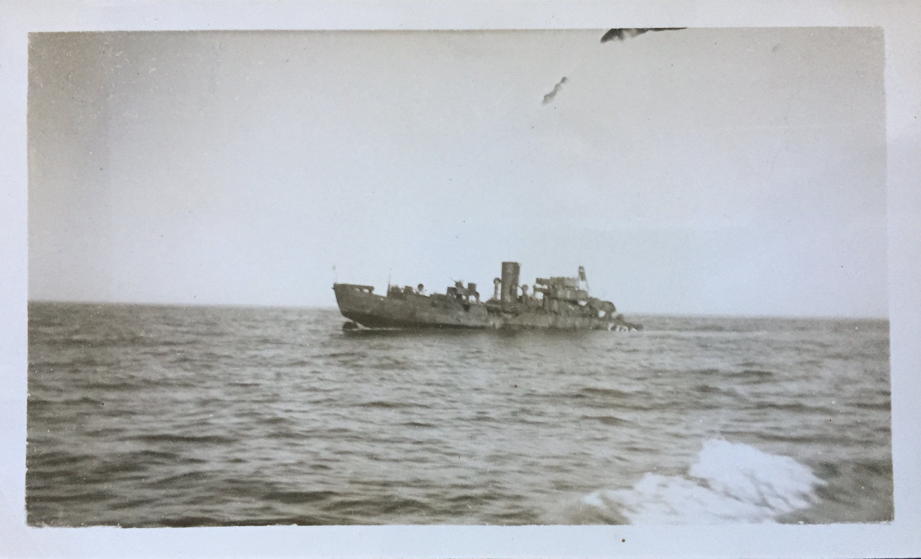 Alysse, just prior to sinking, 9 February 1942. Photo by L/S Ian Butters RCNVR from HMCS Moose Jaw.